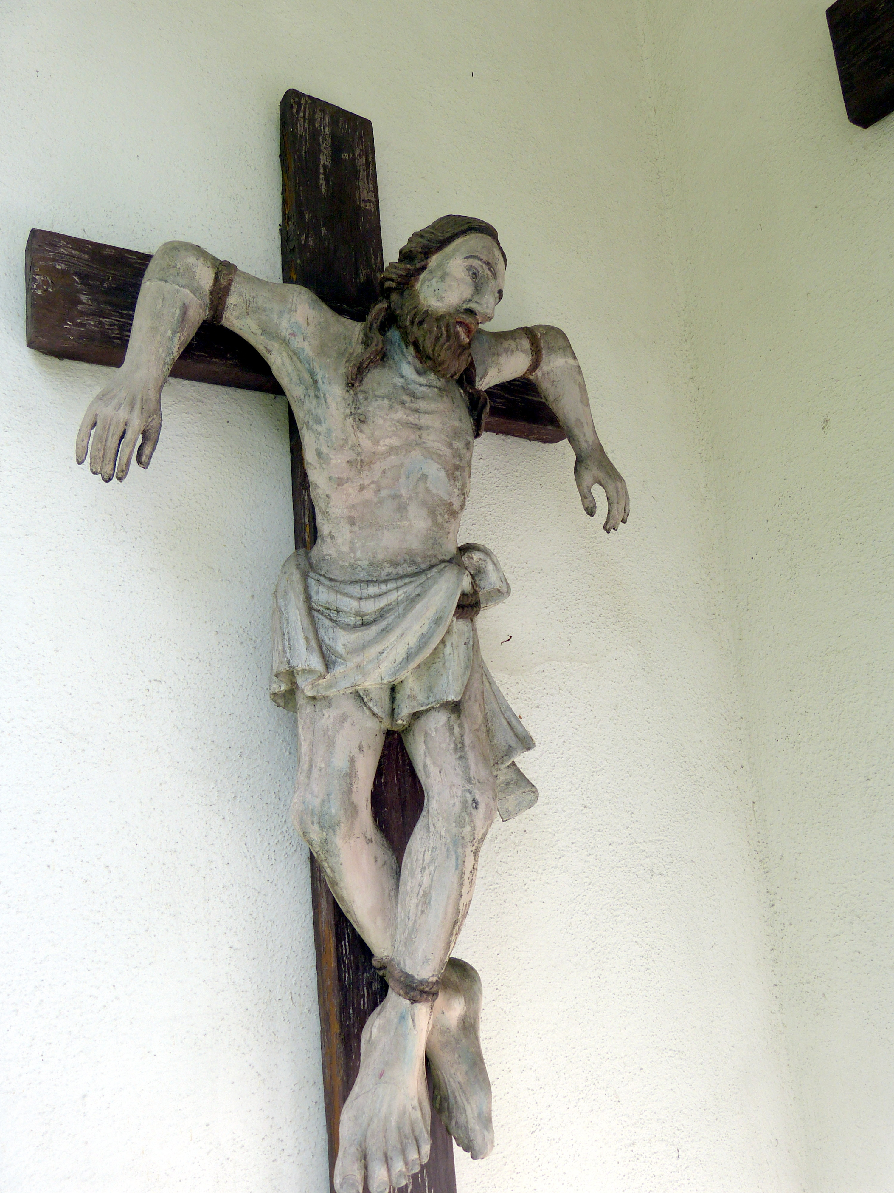 Maria Bründl ( Putzleinsdorf / Upper Austria ). Calvary - Chapel of Crucifixion: Saint Dismas ( 17th century ).